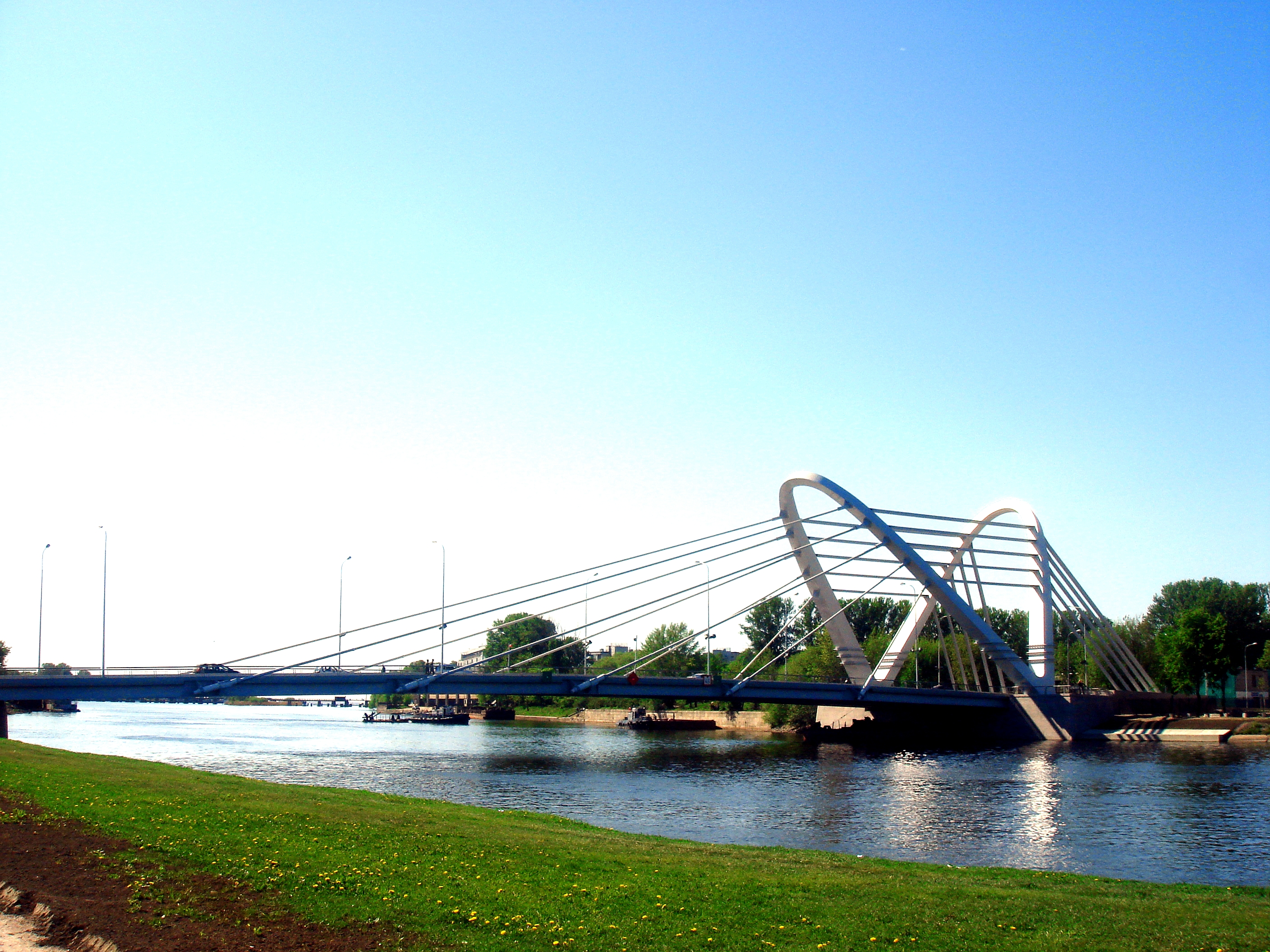 A new completed Lazarevskiy bridge built over the Neva River in 2009 instead of older one.